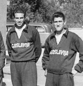 Left-right: Velimir Valenta and Duje Bonačić at the 1952 Olympics